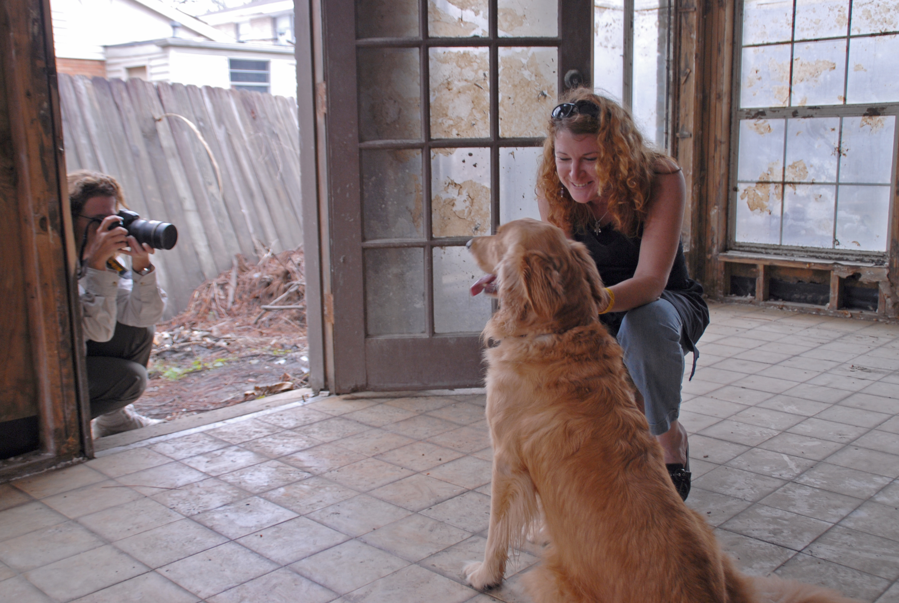 New Orleans, LA, 1-21-06 -- Hurricane Katrina disaster survivor/victim Lauren Newell and dog Lola are photographed by Church World Service Photographer Annie Belt. Church World Service is making a calendar and image CD of people affected by the disaster to aid church groups who raise money, aid, and get people involved to help Hurricane Katrina disaster victims. MARVIN NAUMAN/FEMA photo